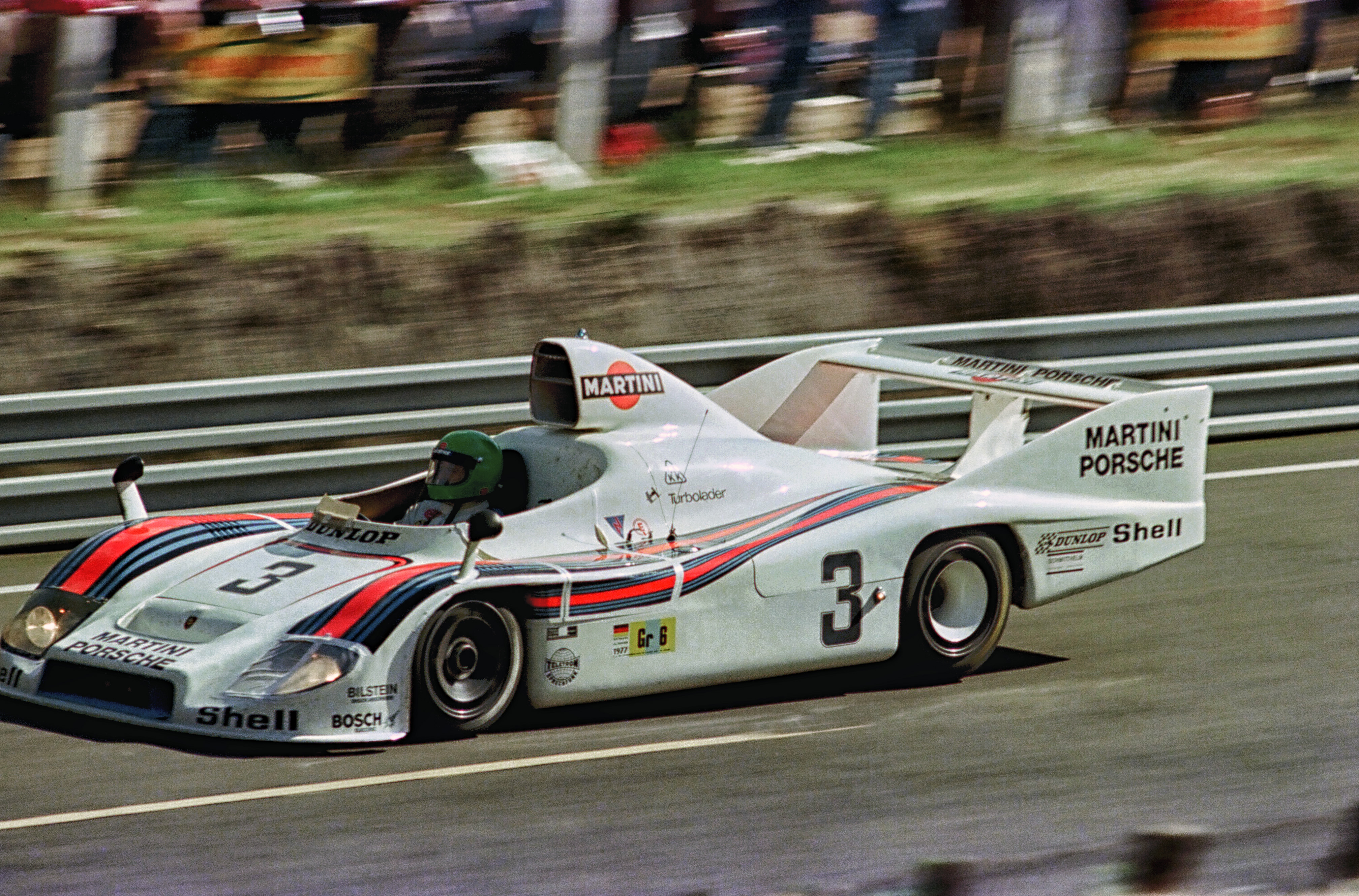 Henri Pescarolo (F)/Jacky Ickx (B) Porsche 936/77 #002, 24 Heures du Mans - Circuit de la Sarthe, Le Mans (F)